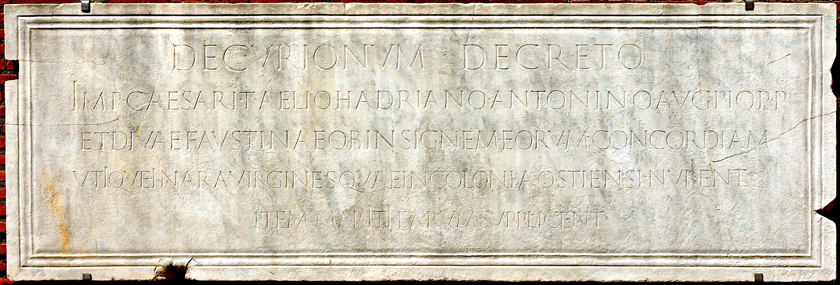 Inscription compelling all young couples marrying in Ostia to worship the representations of Concord, Antoninus Pius and Faustina Major.